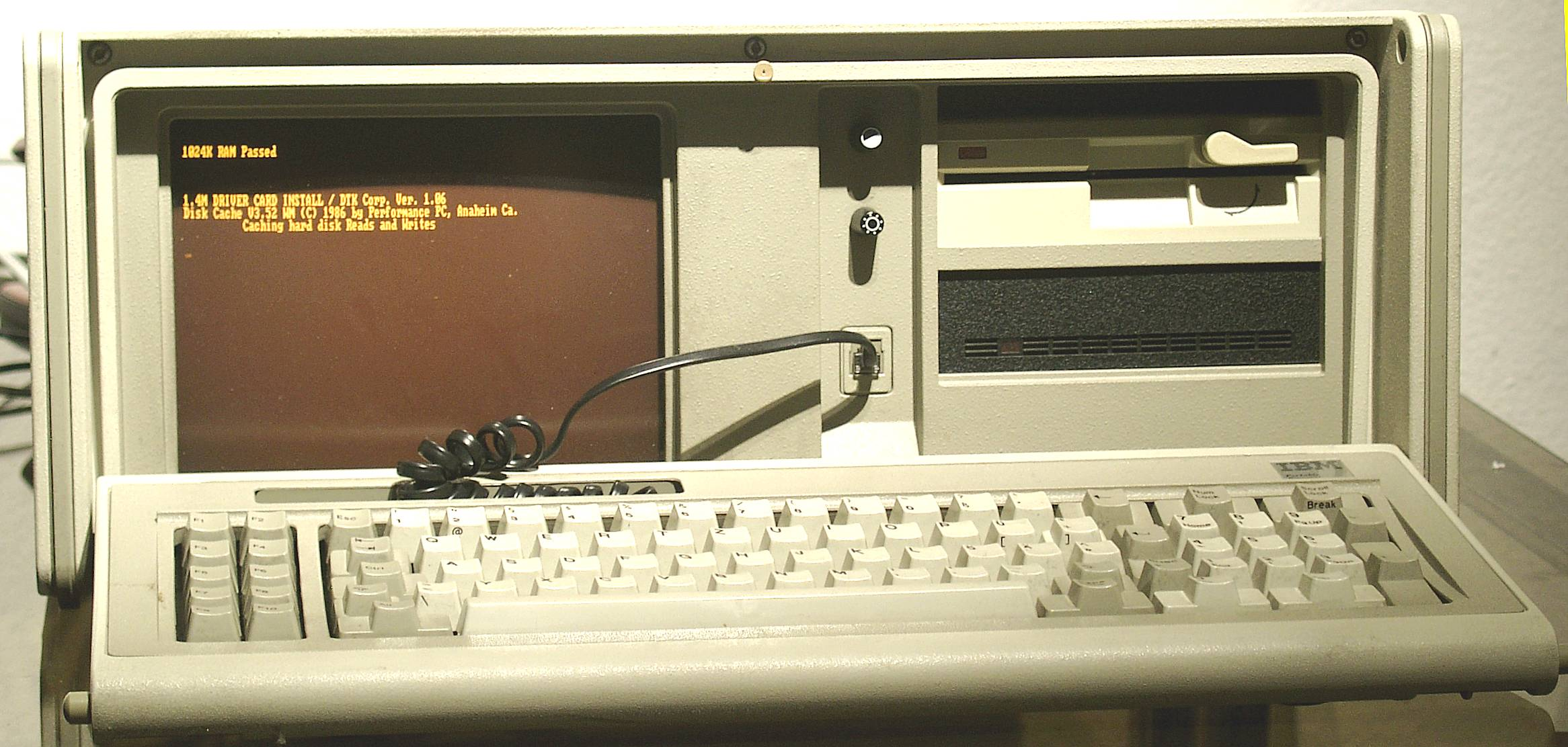 IBM Portable PC